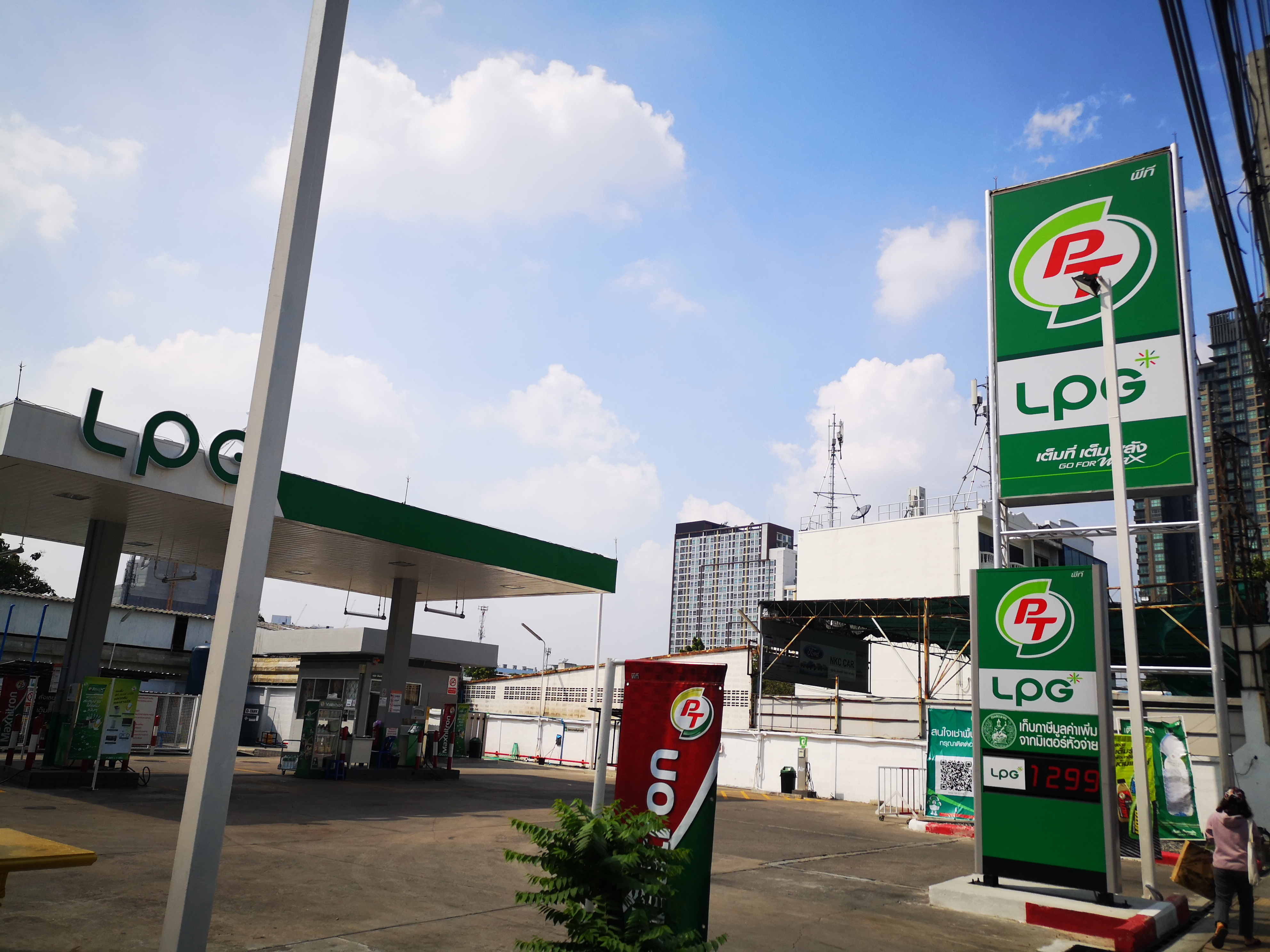 PT gas station